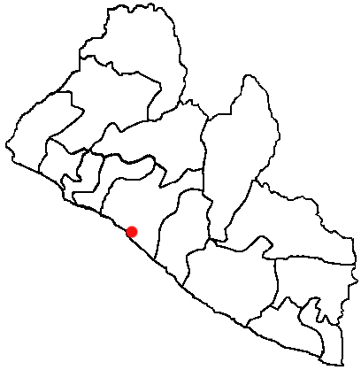 Buchanan, Liberia Location Map; created with the GIMP. Made by User:Acntx.